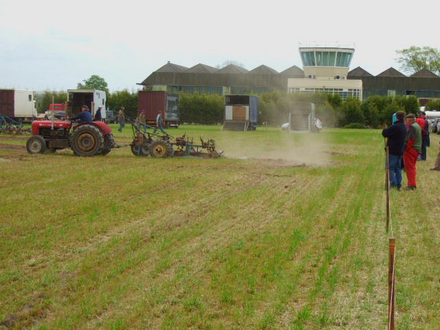 Vintage ploughing. One of the older tractors about to start,the white building in the background is the control tower to the former RAF station here at Lindholme